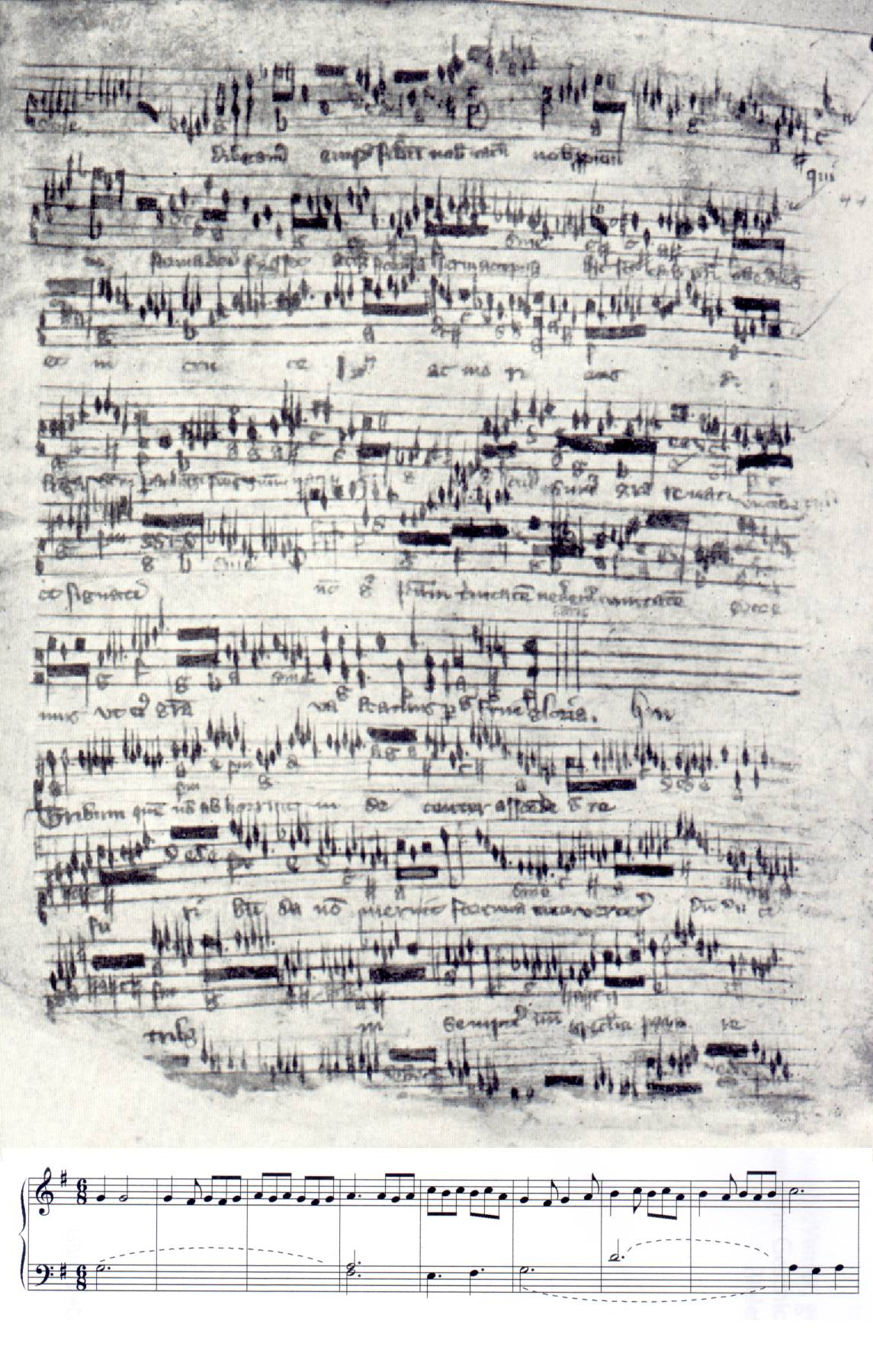 Fol. 44r from "Robertsbridge Codex" with transcription of the beginning of "Tribum, quem non abhorruit"